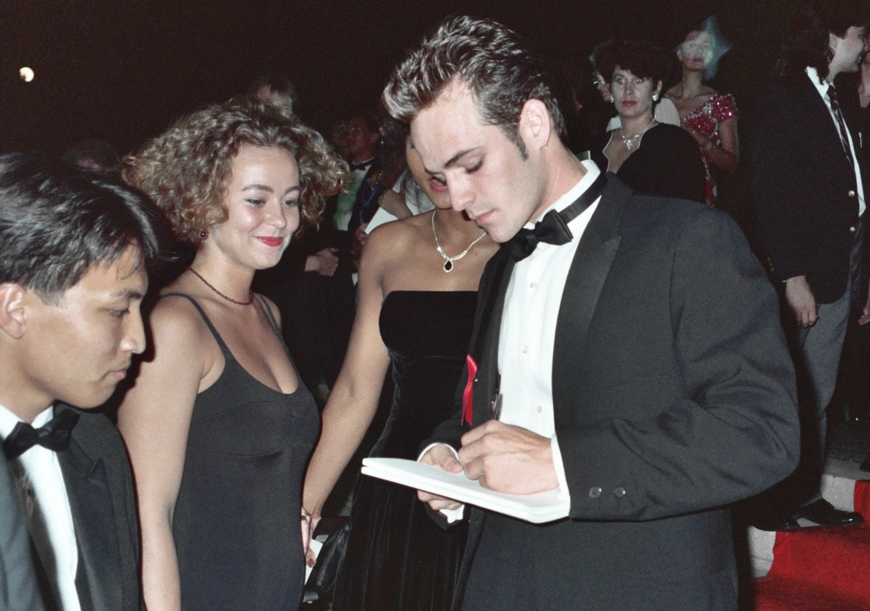 Luke Perry signs an autograph at the 1991 Emmy Awards. NOTE: Permission granted to copy, publish, broadcast or post any of my photos, but please credit "photo by Alan Light" if you can. Thanks. Scanned from the original 35MM film negative.